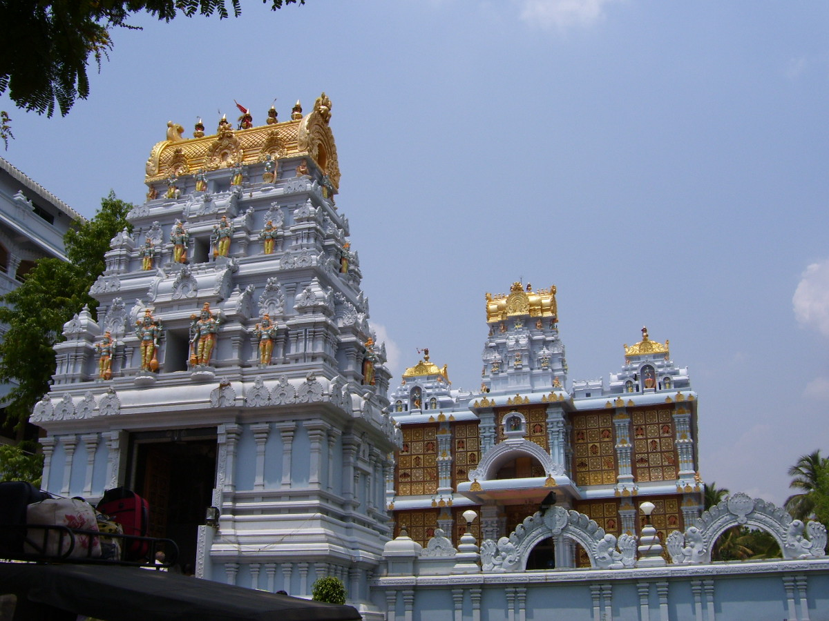 Tirupati ISKCON Temple